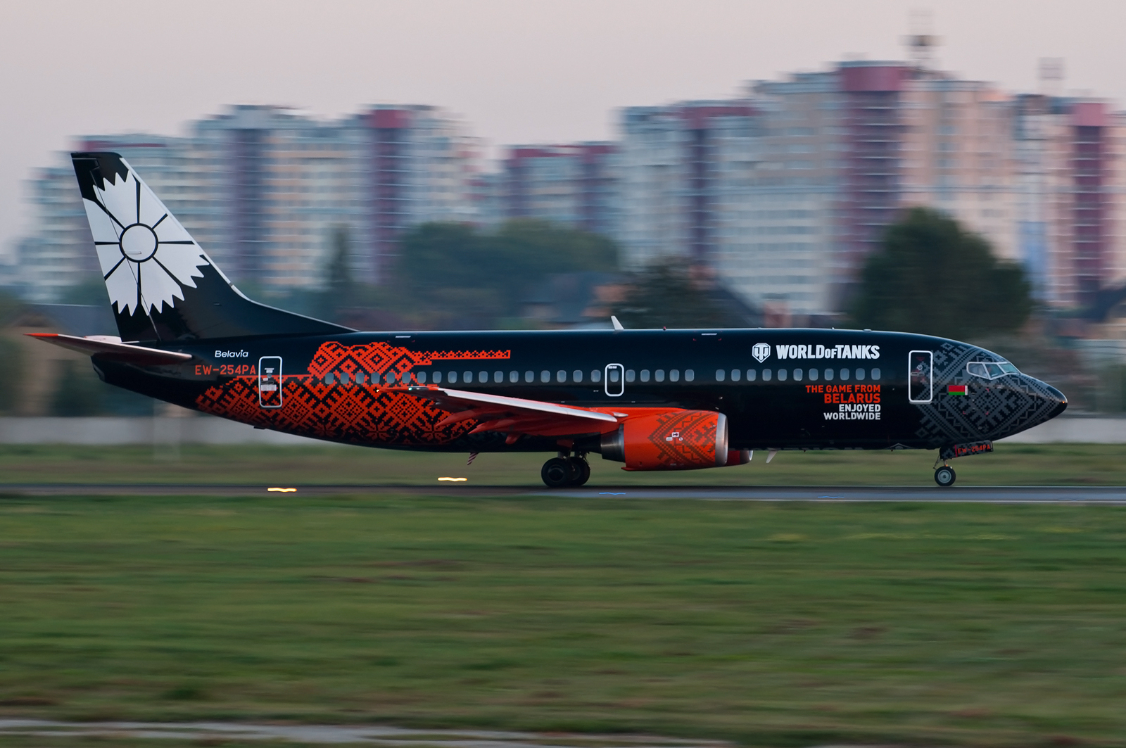 Belavia Boeing 737-300 World of Tanks logojet (EW-254PA) at Kiev Zhulyany